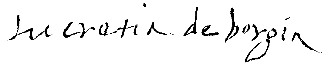 The signature of Lucrezia Borgia duchess of Ferrara under a letter to her sister-in-law Isabella d'Este marchioness of Mantua.